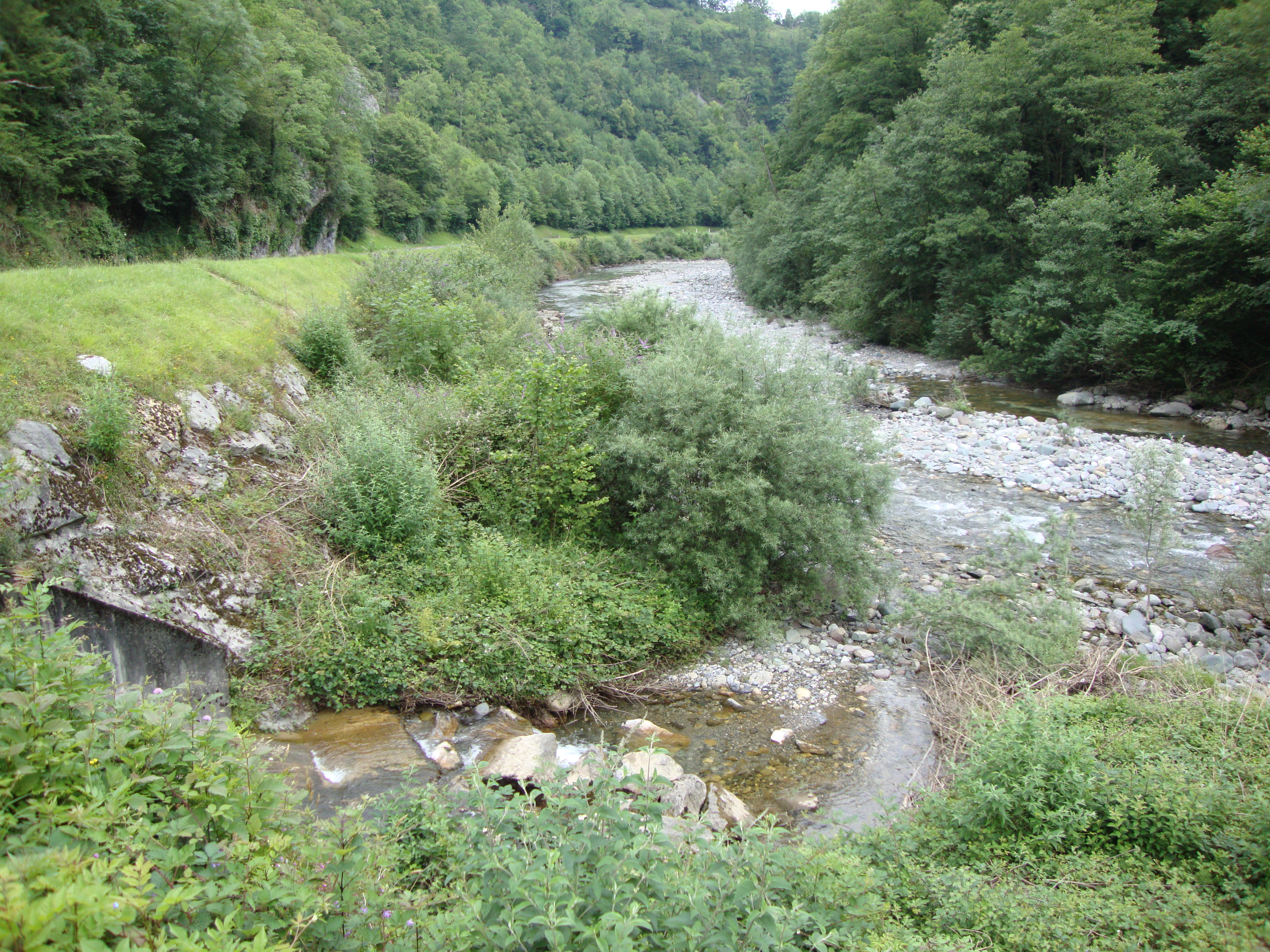 Osse-en-Aspe (Pyr-Atl, Fr) confluence Espalungue - Gave d'Aspe at location Lacroix.